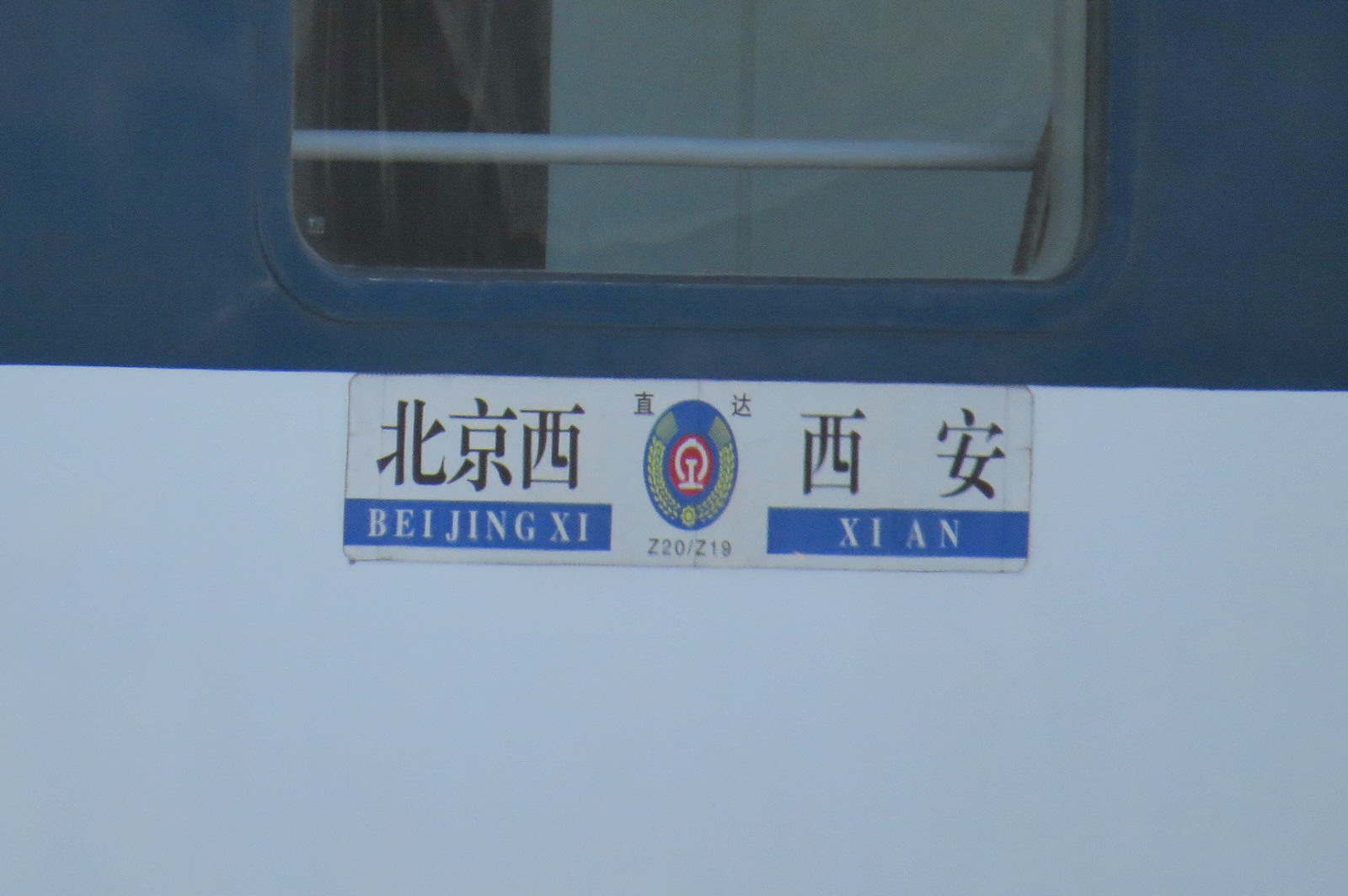 The king of Xi'an Bureau.